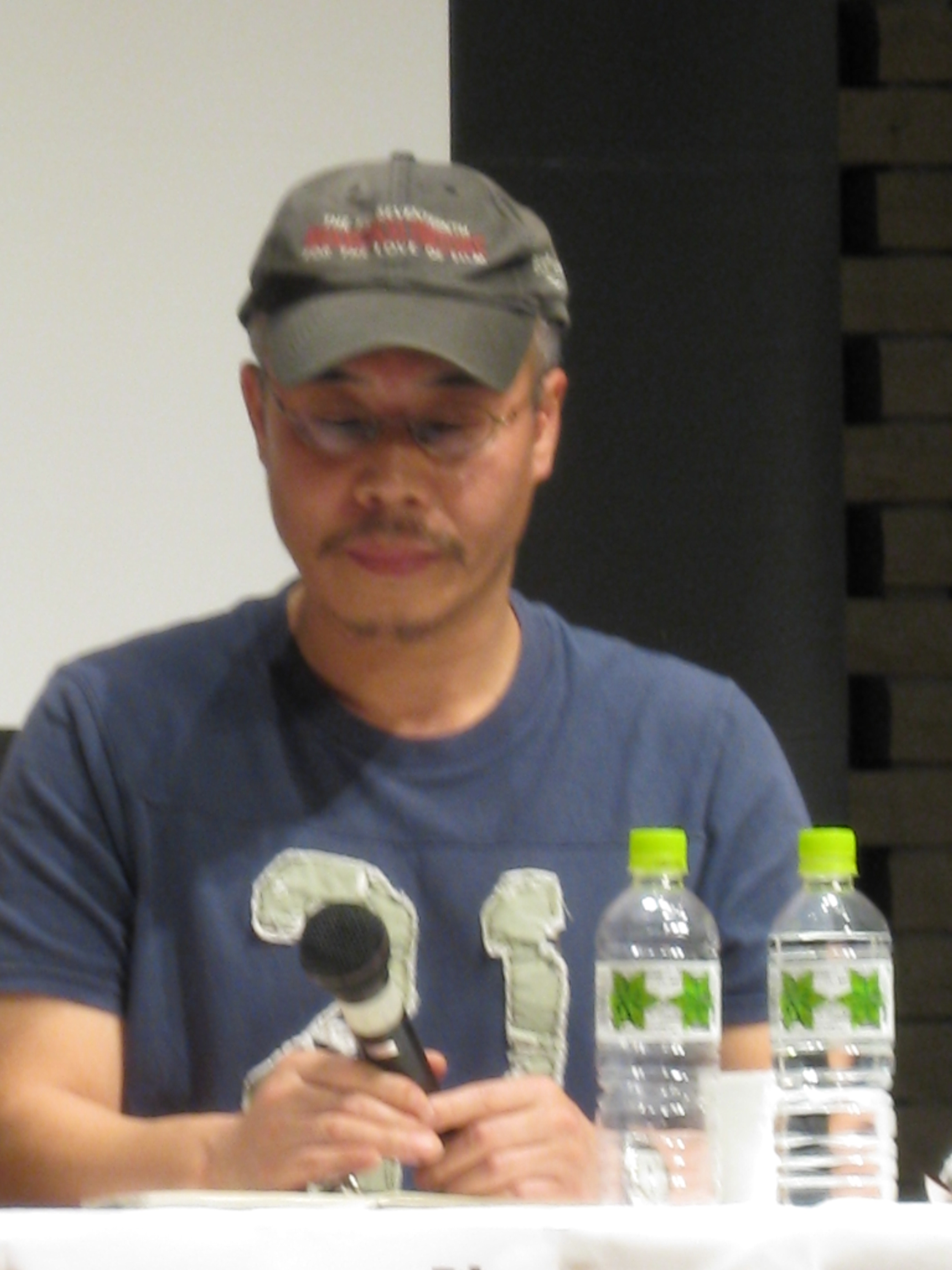 Lee Myung-se, a Korean film director, at the symposium in 2009 Japan-Korean Next Generation Film Festival at (Beppu, Oita)